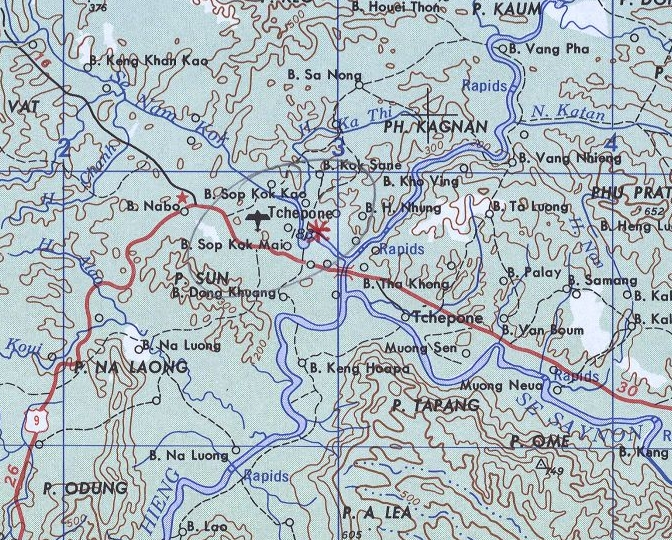 A portion of the Tchepone area map produced in 1954 and updated in 1962 showing the locatio of the village of Xépôn in Laos. Just to the northwest is an indicator showing the location of the French-built airfield. Xépôn is also known as "Tchepone" and as "Sepon." The village was destroyed during Operation Lam Son 719 in February and March of 1971. A modern village, also known as Xépôn (or Sepon) was built near the site of the old airfield.